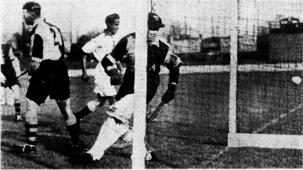 India and Australia field hockey match. Dyan Chand has just hit a goal